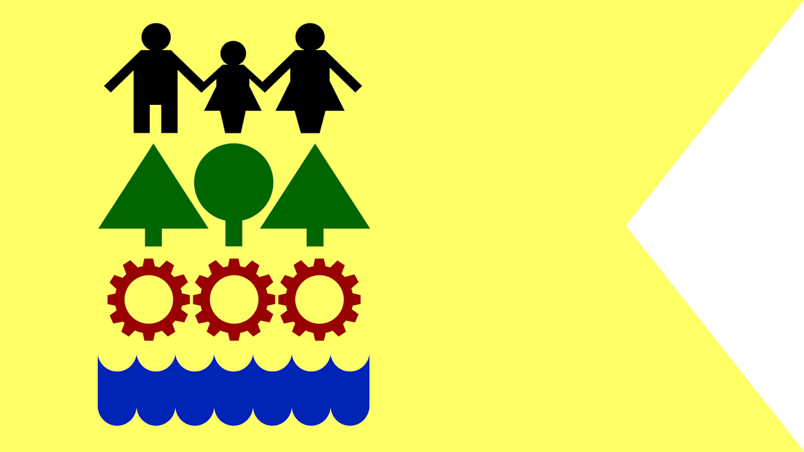 A yellow banner with symbols of civic life depicting family, public parks, industry and Lake Michigan. This flag was designed by Lee Tishler in 1975, the winning entry in a new Milwaukee flag contest. It was never officially adopted by the city.